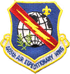 405th Air Expeditionary Wing - emblem